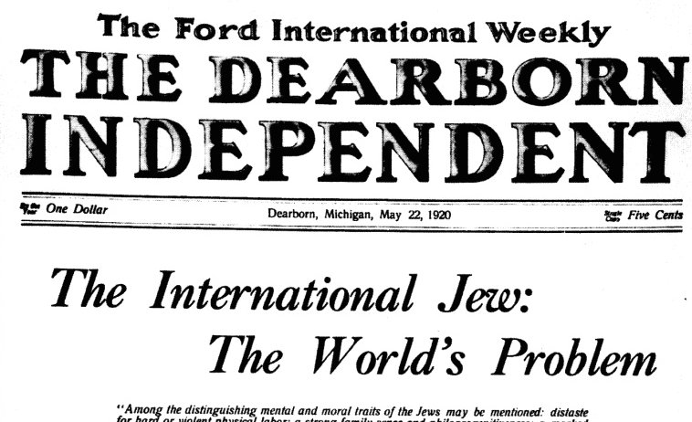 Henry Ford's newspaper The Dearborn Independent, May 22, 1920.